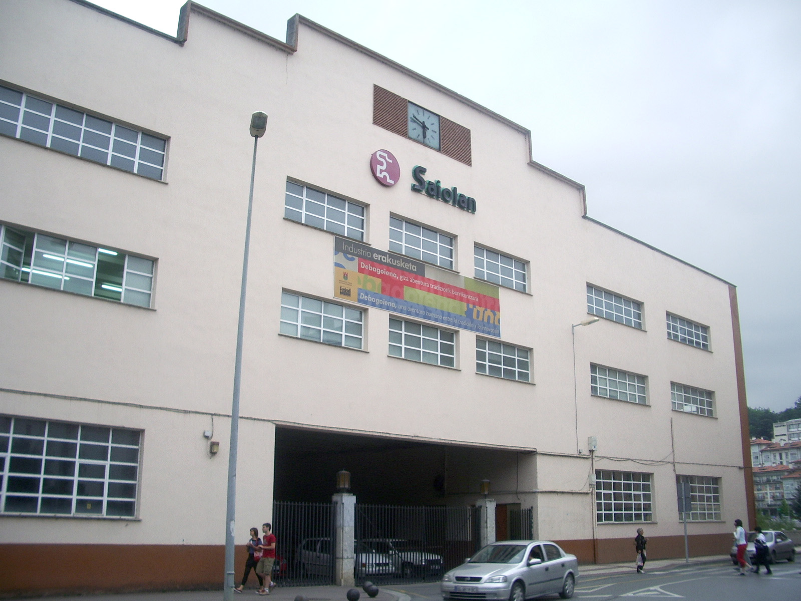 Entrance building of Union Cerrajera factory in Arrasate, Guipuscoa (Basque Country)